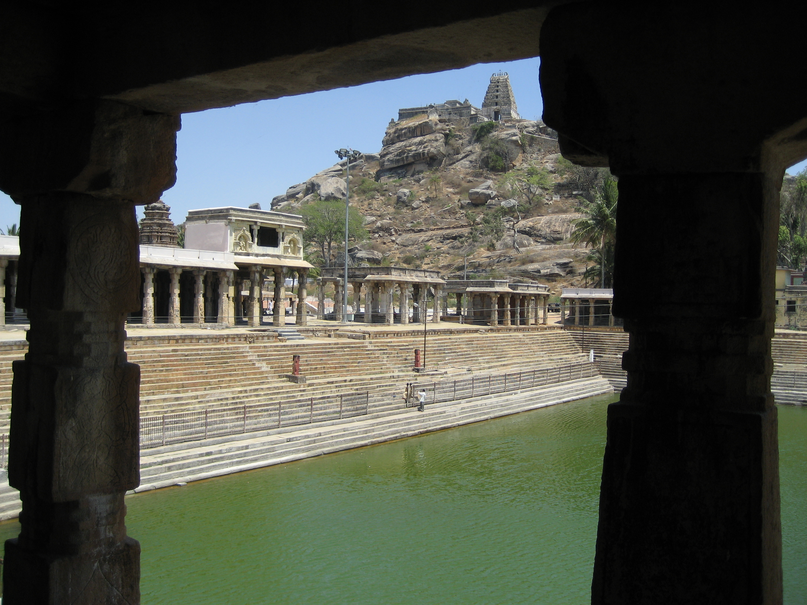 u can see melukote hill in the backdrop of main kalayani